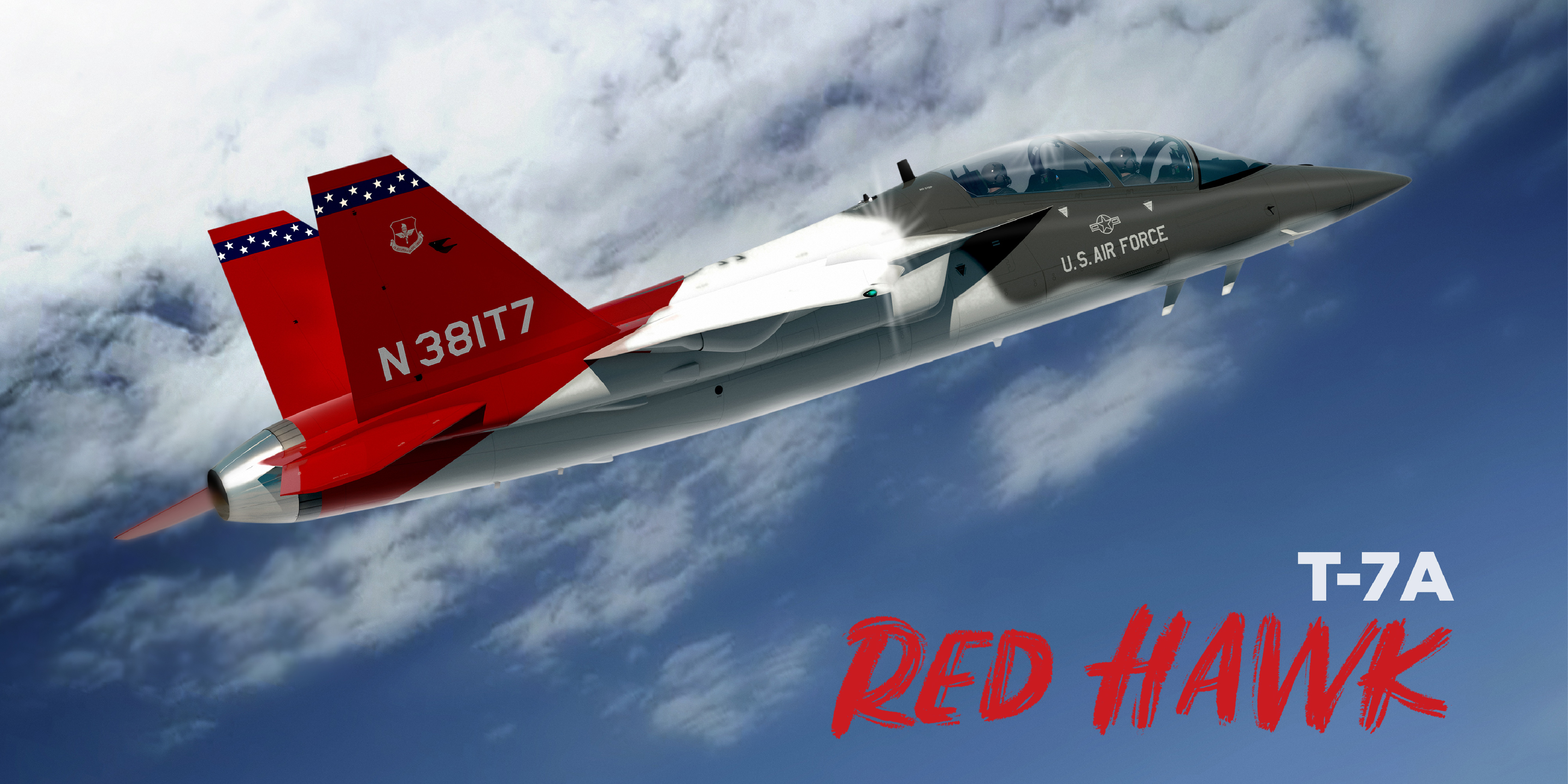 USAF publicity photo showing the red tails of the new T-7A Red Hawk